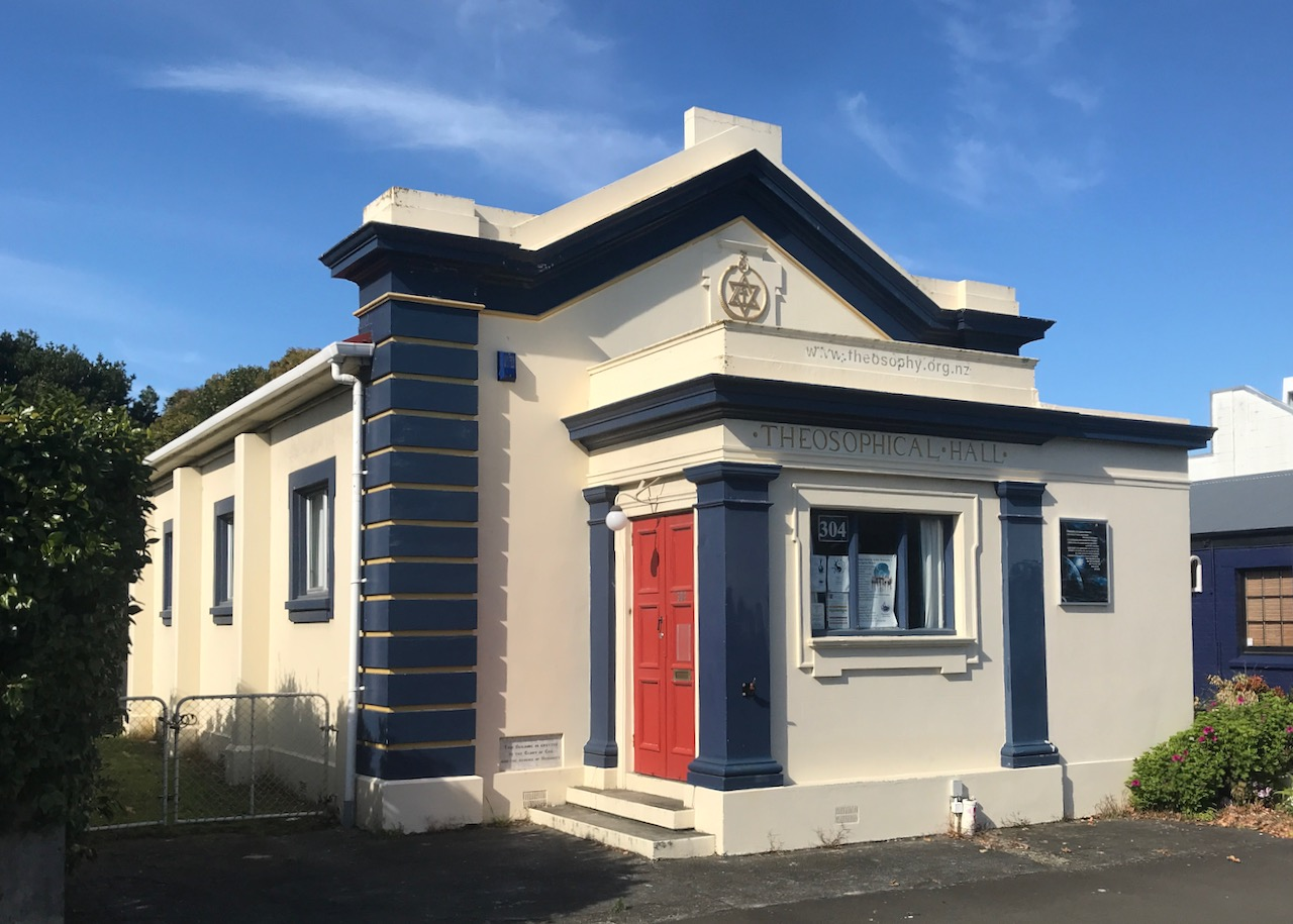 Theosophical Hall, 304 Church Street, Palmerston North, New Zealand. The Palmerston North branch of the Theosophical Society was established in 1911, a relatively short time after the movement's establishment in 1882. The building itself was constructed in 1924 and was the first to be purpose-designed for electricity in the city. Arthur Robert Allen, a Freemason and prominent architect in the city, was the architect of the building. He played a large part in the rebuilding of Dannevirke after the great fire on Labour Day, 1917, which destroyed 35 buildings on either side of High St. The Edwardian Baroque-style building has significant spiritual value as a place to study philosophy, religions, and spirituality. The meditation room in particular has been described as having "a sense of calm ideal for its purpose". The main hall floor remains sloping, as the original use of the hall was for lectures. More info.